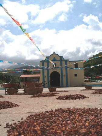 Cacao drying square in front of church, Plaza de Secado, Chuao, Venezuela.